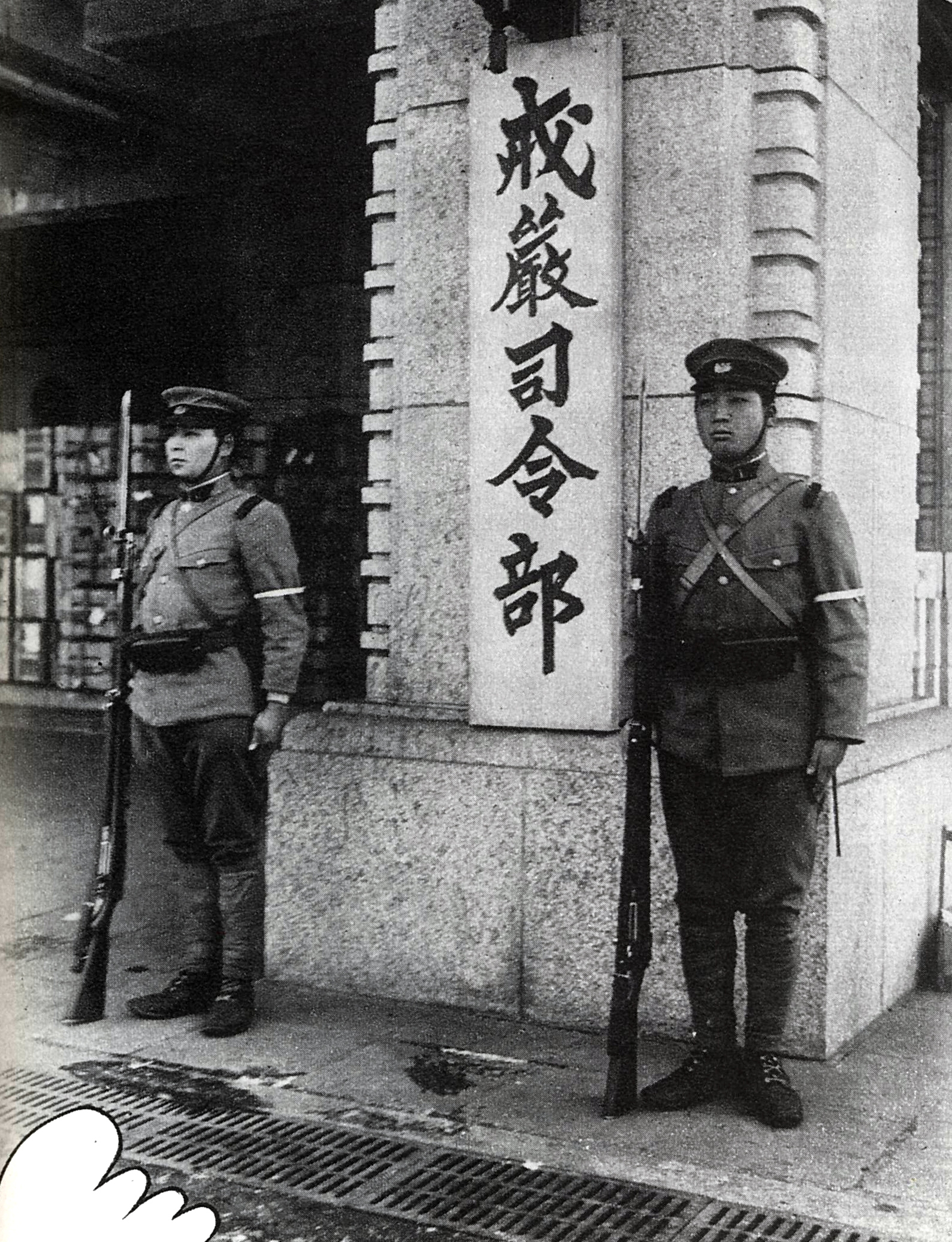 Martial Law HQ established in Tokyo because of the 2-26 Incident.